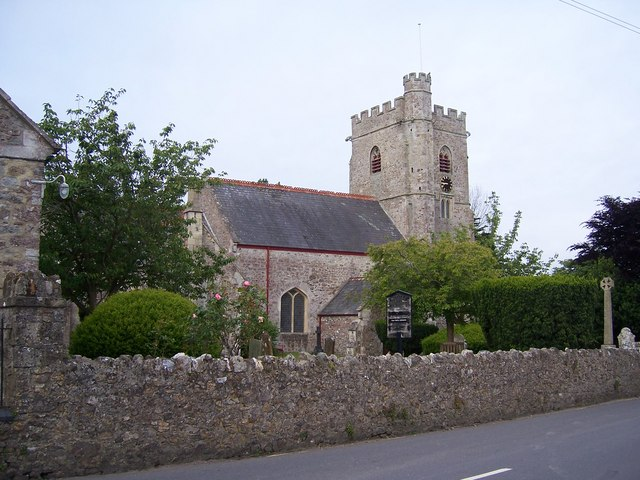 Axmouth Church Devon